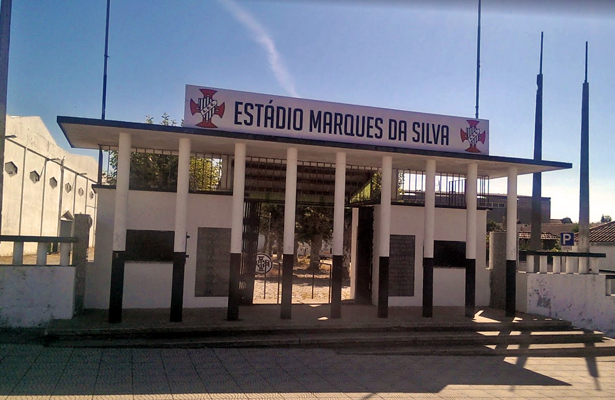 Marques da Silva Stadium Entrance